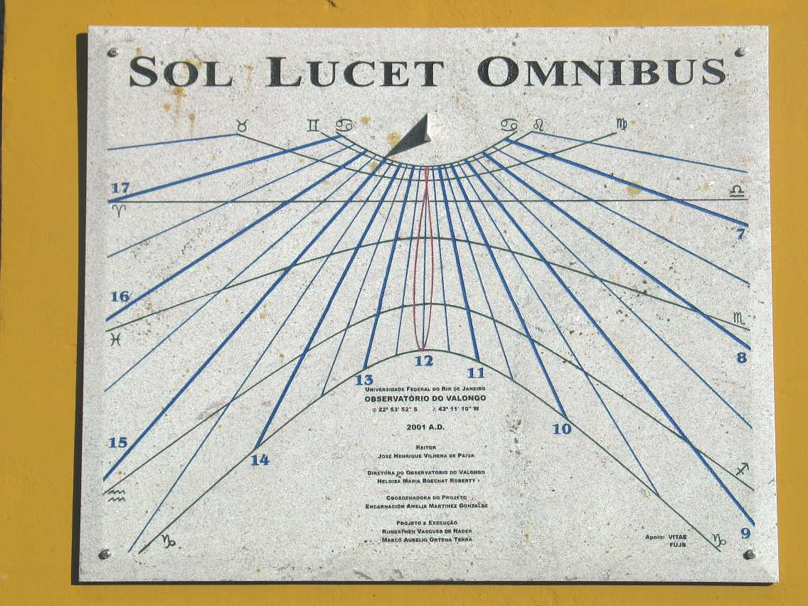 Sunclock in the Valongo Observatory